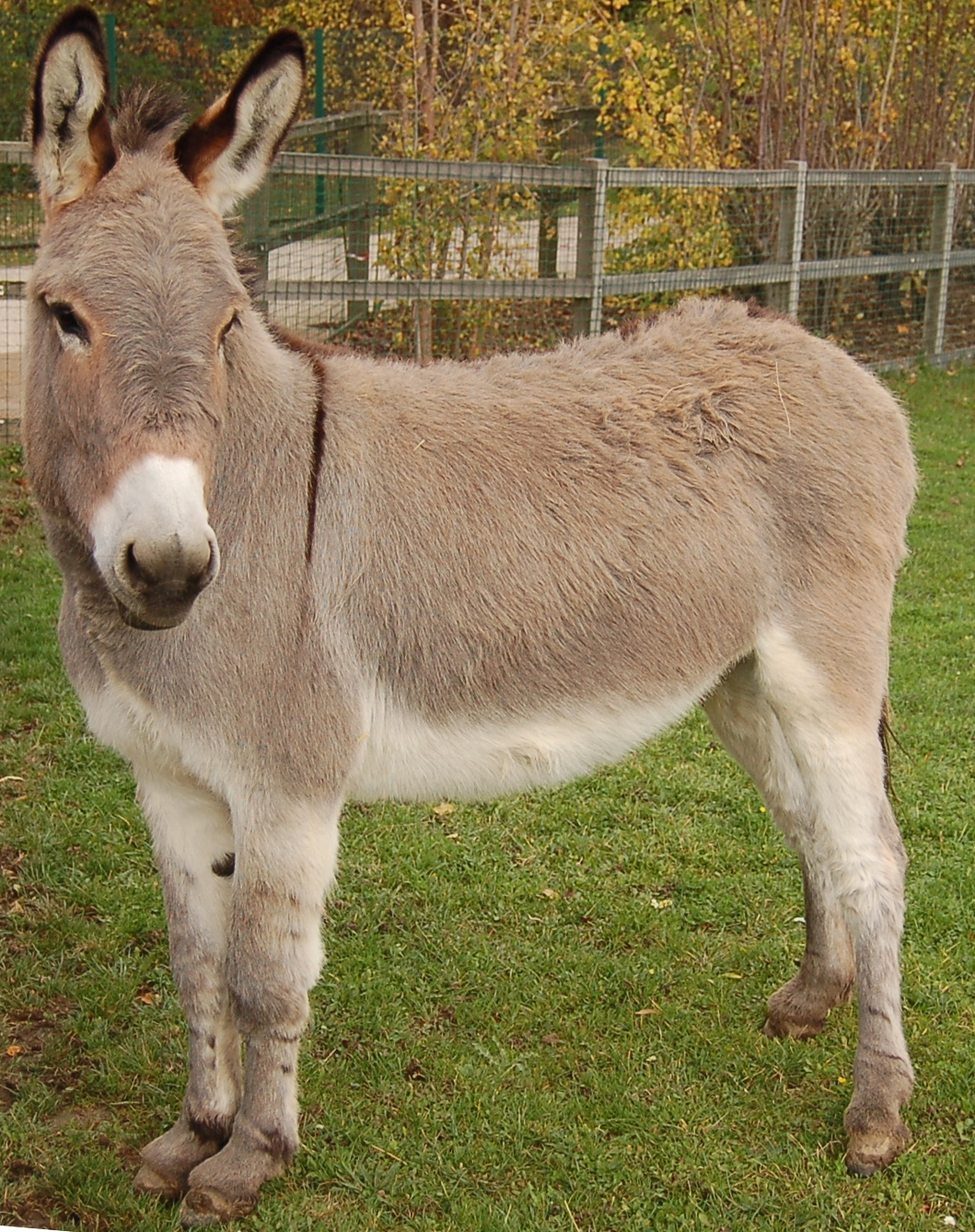 Donkey